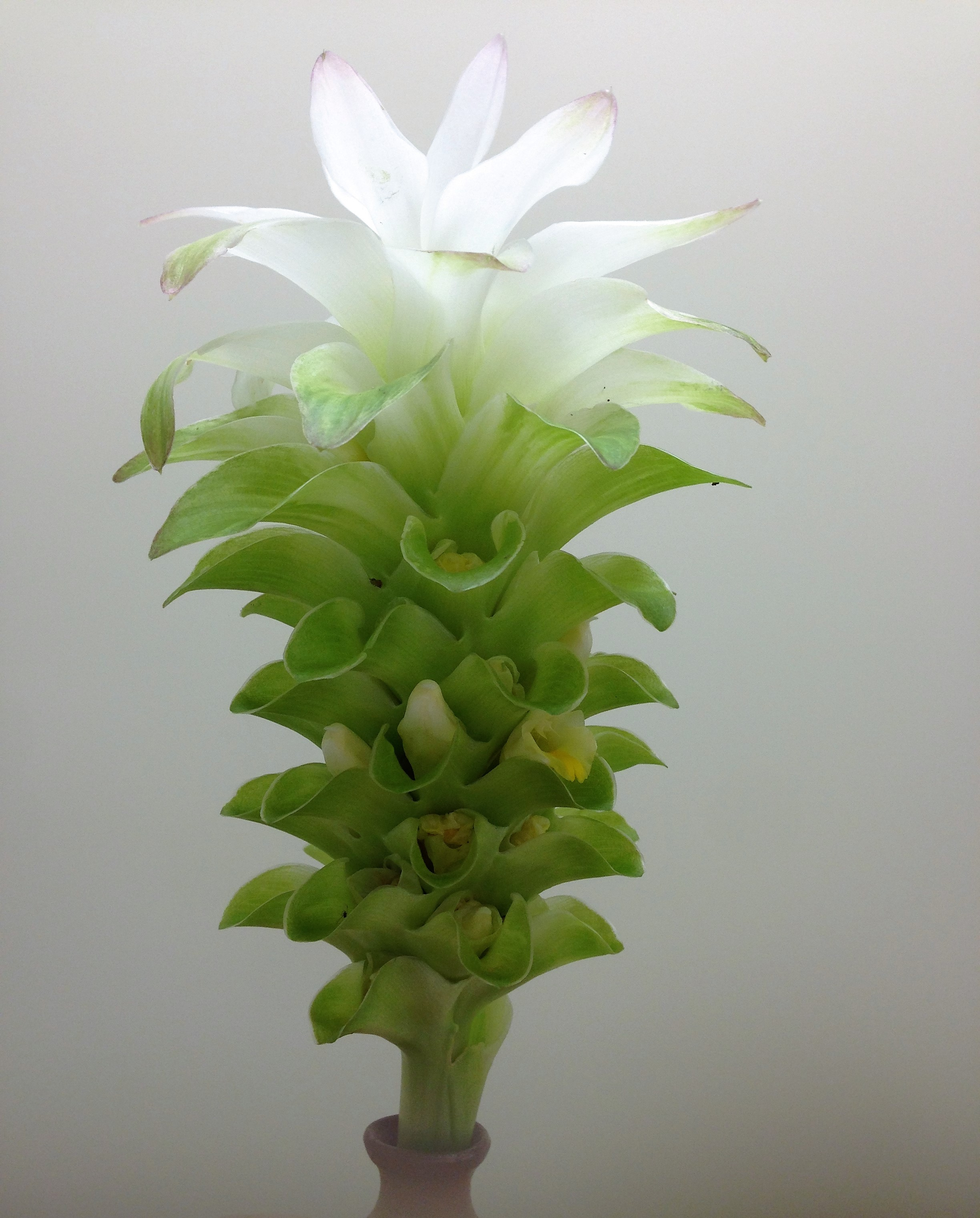 Curcuma longa (JAPAN)